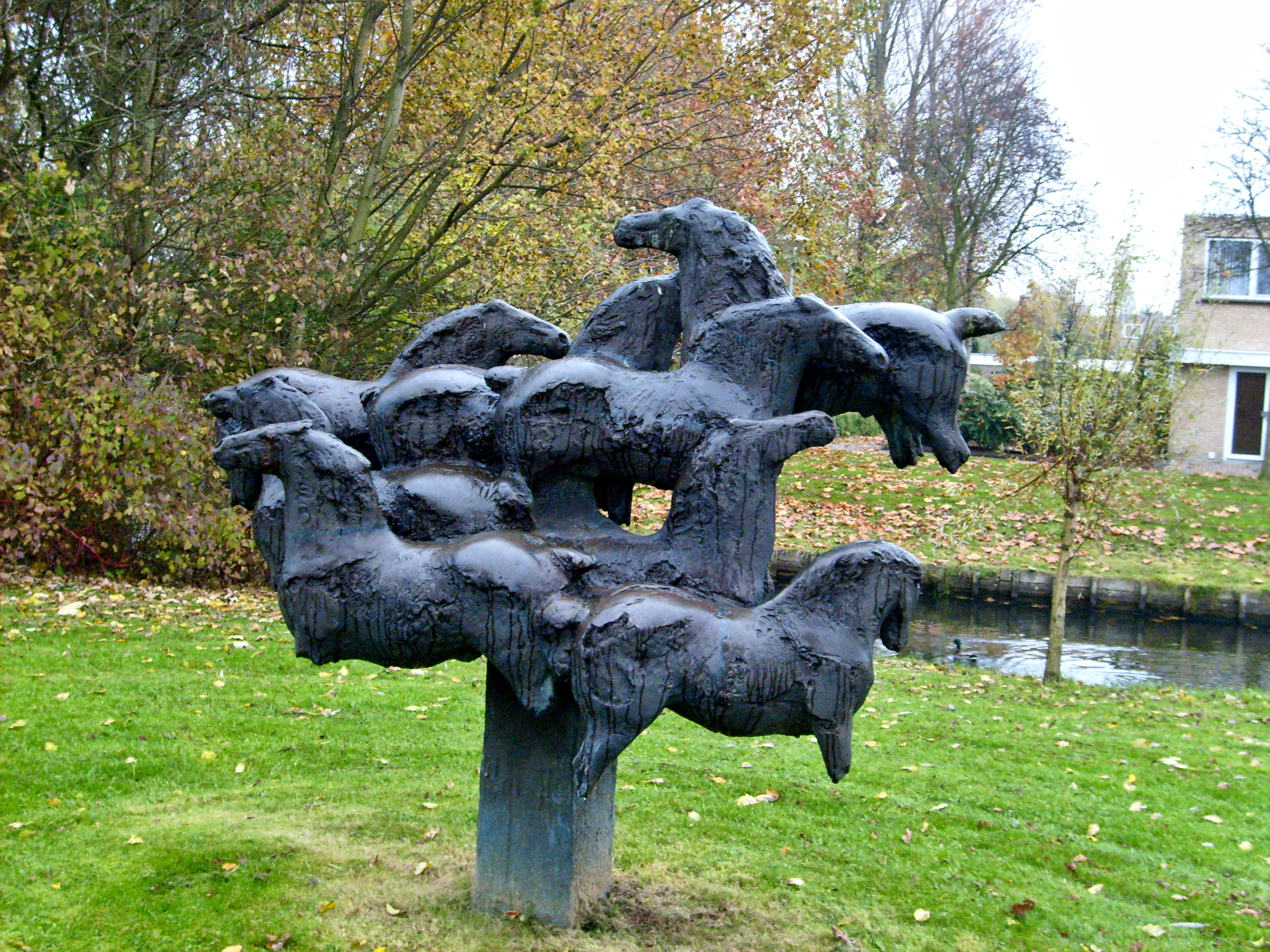 Sculpture by Eric Claus, Hoofddorp, The Netherlands. Name: Horses in the mist.